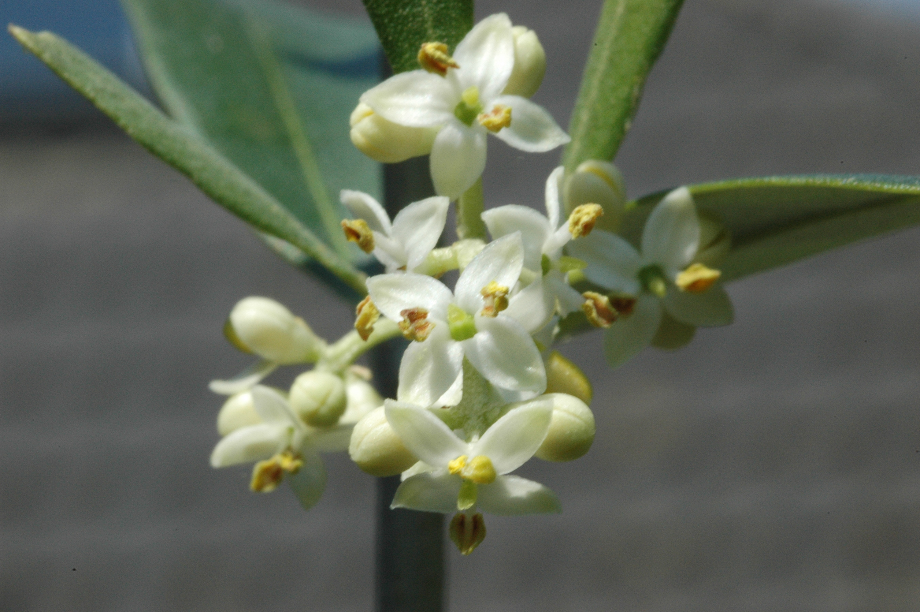 Olive flower